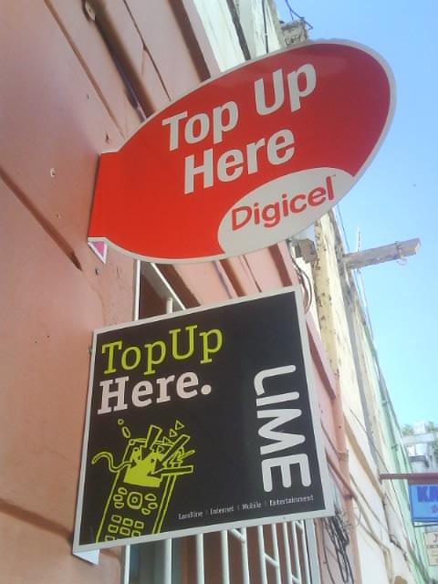 Typical signs in the Caribbean (Bridgetown, Barbados) indicating where to add money "Top Up" pre-paid mobile phones.